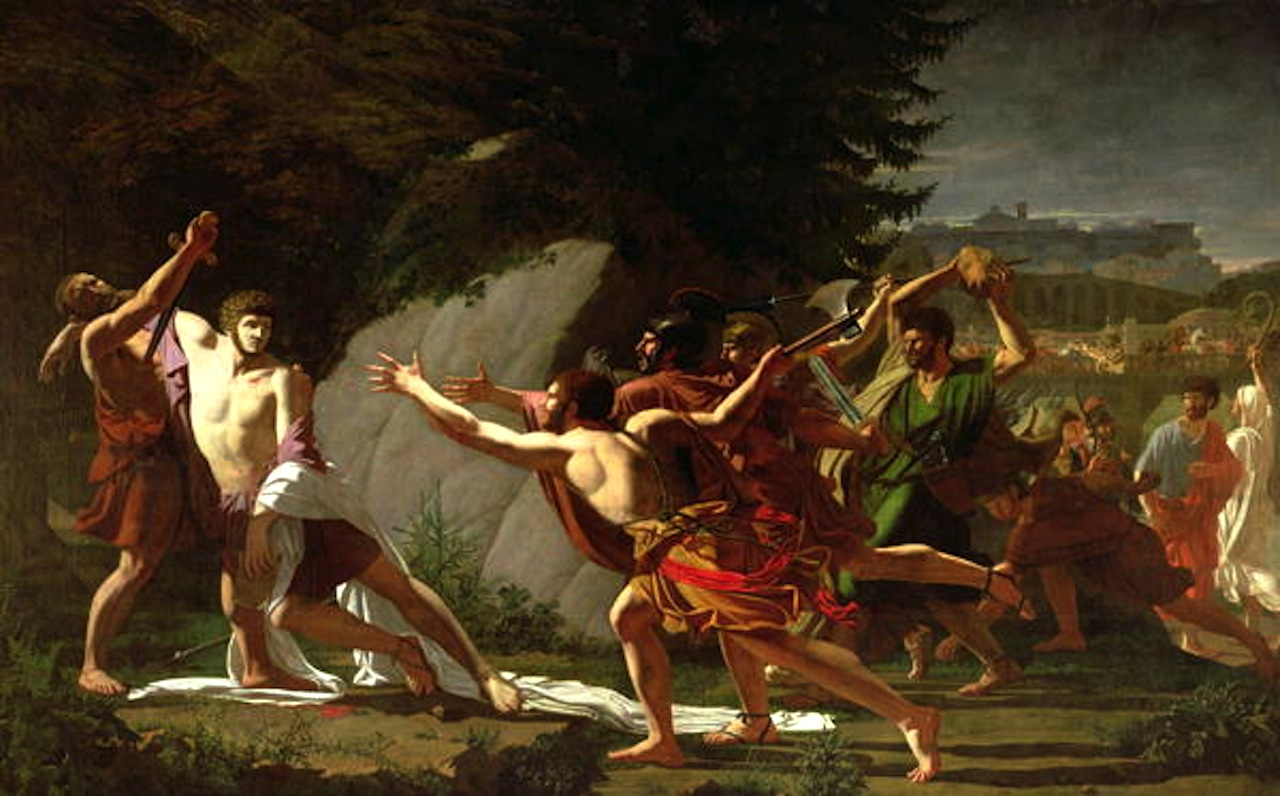 The Death of Caius Gracchus